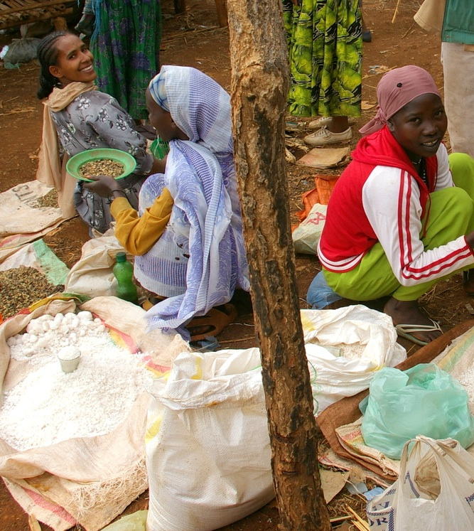 Women on the market in Asosa (Assosa) town, Benishangul-Gumuz Region, Western Ethiopia